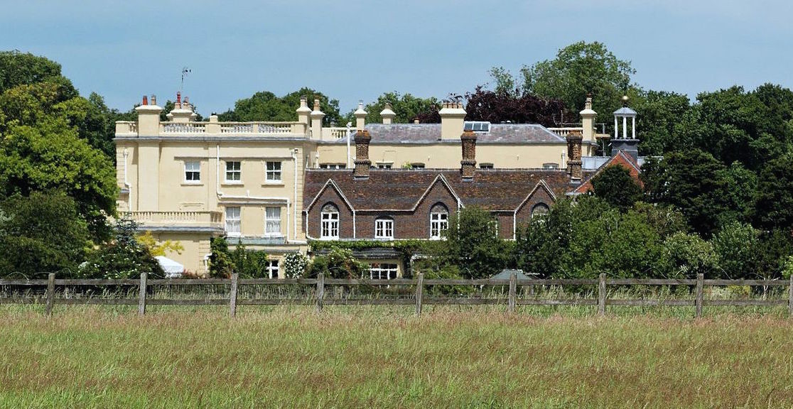 Childwickbury Manor House. Childwickbury manor, formerly Stanley Kubrick's house. Hertfordshire, England.